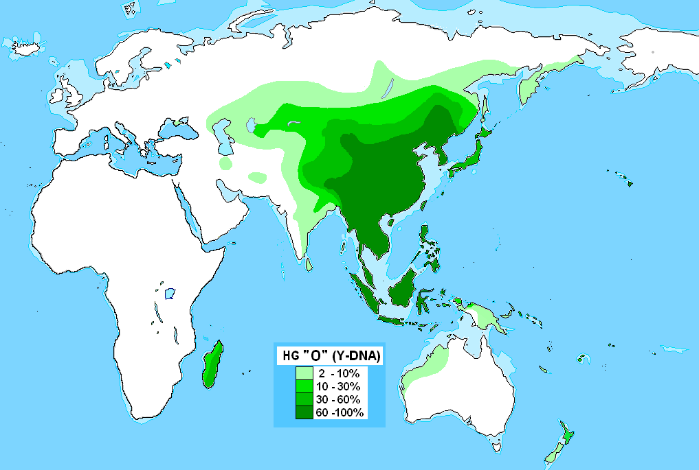 Haplogroup O (Y-DNA) distribution